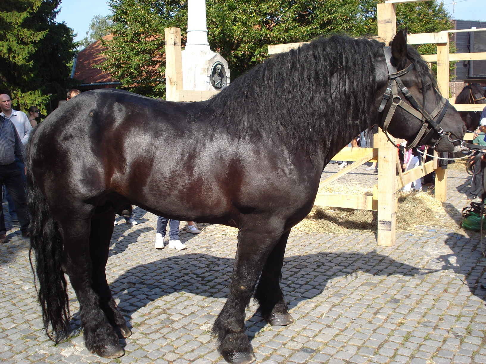 Međimurski konj (Međimurec) = horse breed of Medjimurje, northern Croatia, at an exhibition in Čakovec on September 24th, 2011 - black stallion